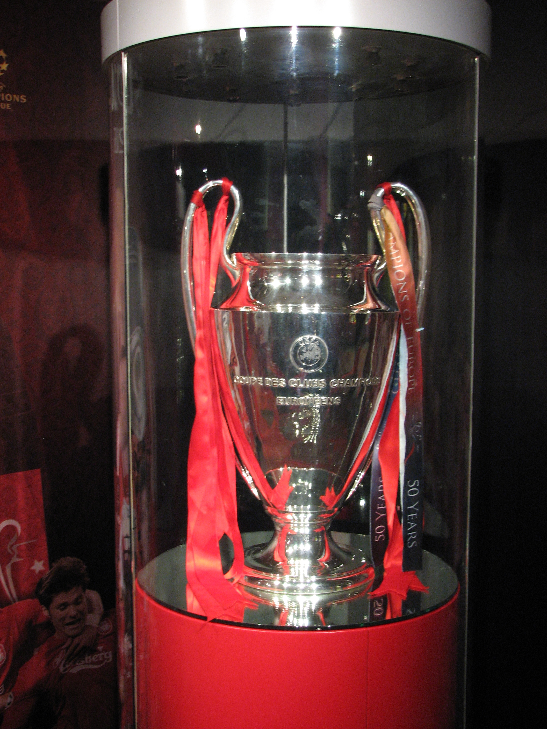 The European Cup Liverpool won for the fifth time in 2005